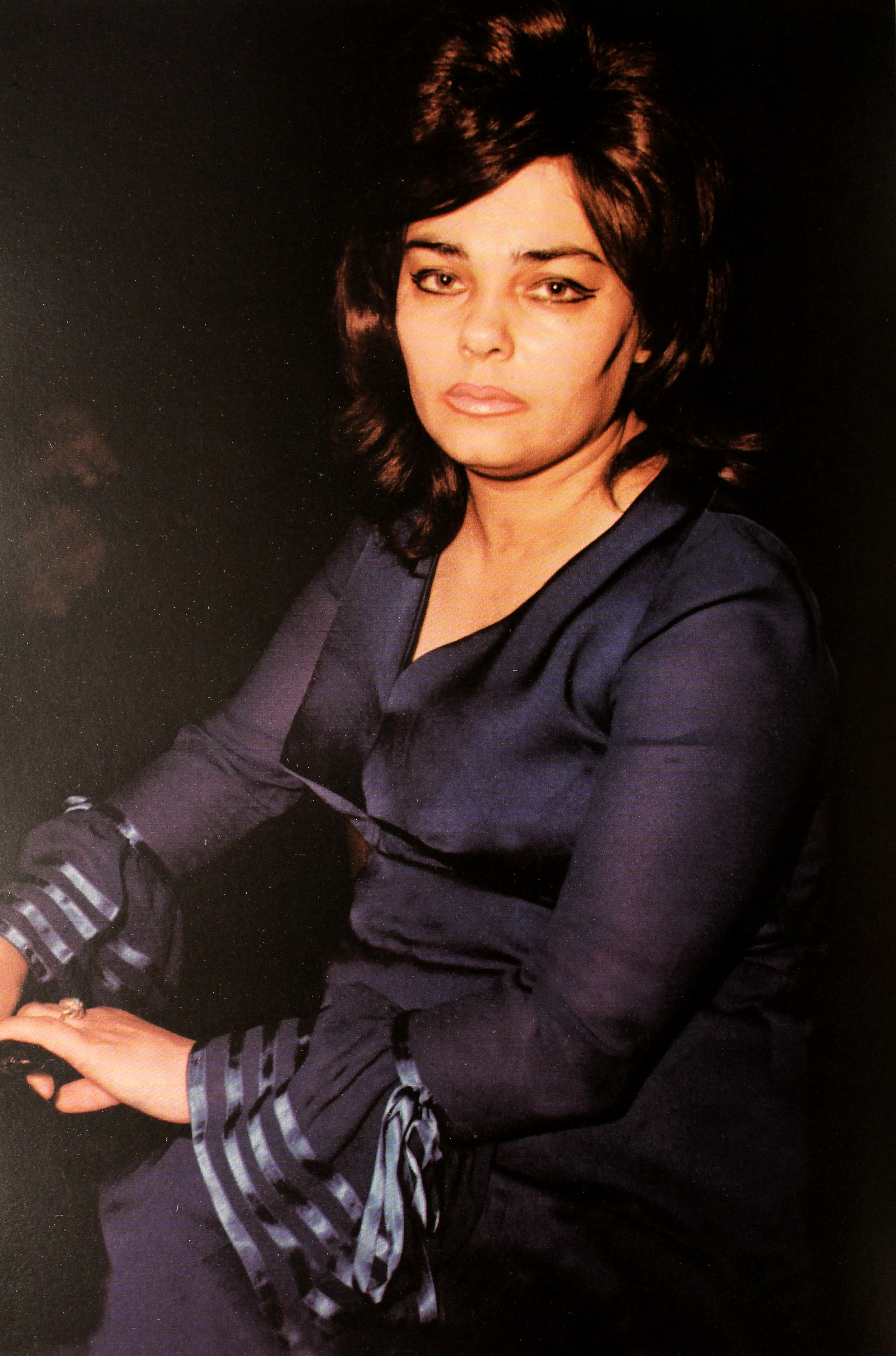 The making of this file was supported by Wikimedia Armenia.